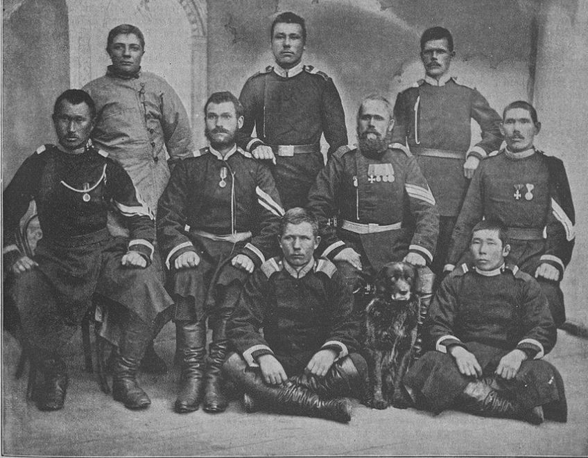 Participants in Roborovski's expedition. From left to right; First line (sitting): Youngest Unter-officer Pavel Zamuraev, Roborovski's dog, zabaikalskiy сossack Buyantuev; Second line: Boinov (zabaikalskiy сossack), Nikolai Shestakov (Semirechenskiy сossack), Gavrila Ivanov (grenadier), Semyon Zharkoy (zabaikalskiy сossack); Third Line: Ilya Kurilovich, Zinoviy Smirnov (grenadier), Efim Voroshilov